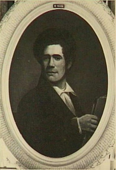 Zelfportret van de kunstschilder Jacobus Schoemaker Doyer